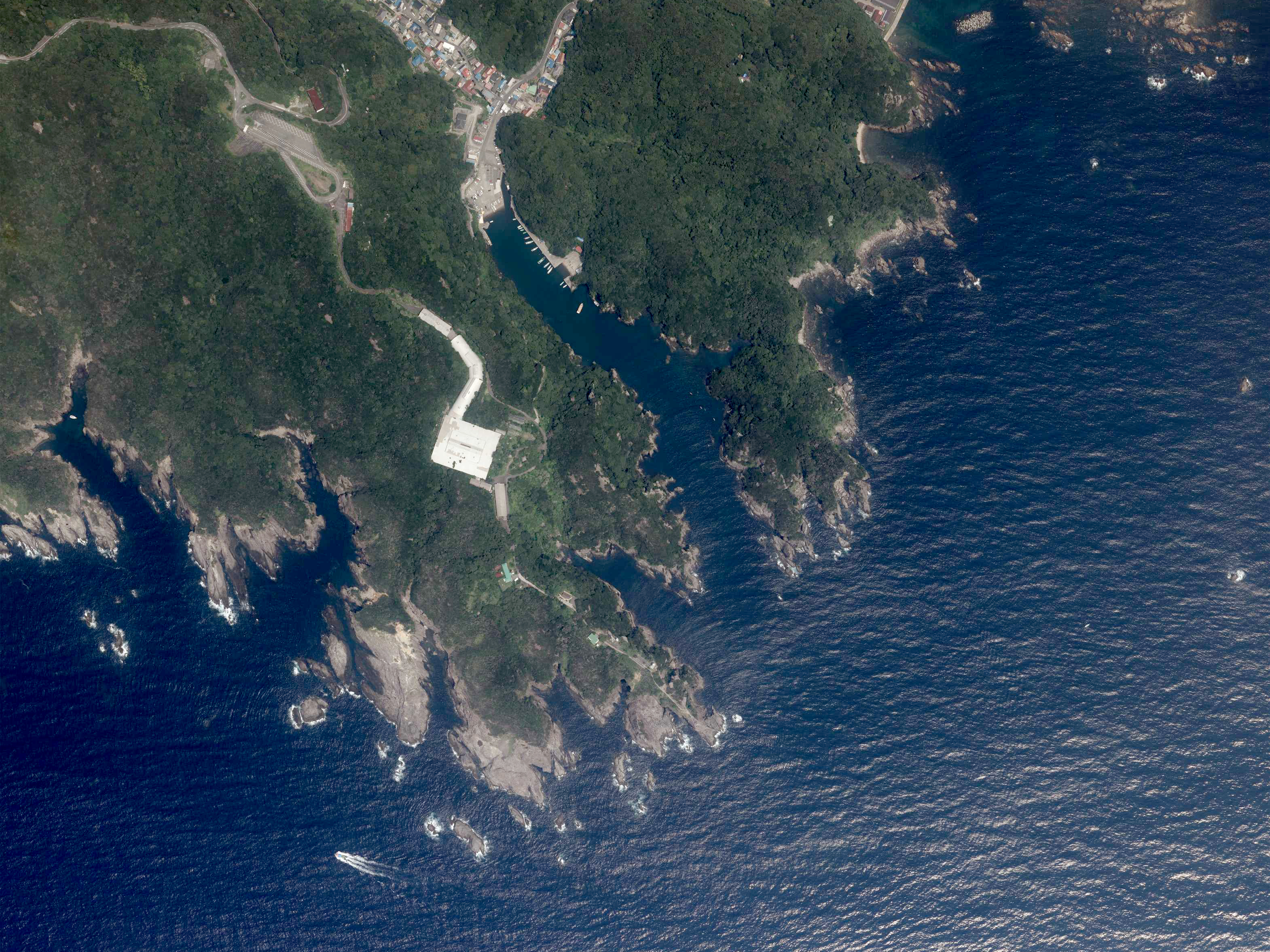 Aerial photograph of Cape Irozaki in Minamiizu, Shizuoka Prefecture, Honshu, Japan. This is a retouched picture, which means that it has been digitally altered from its original version. Modifications: Cropping & Color adjustment. Modifications made by Batholith.